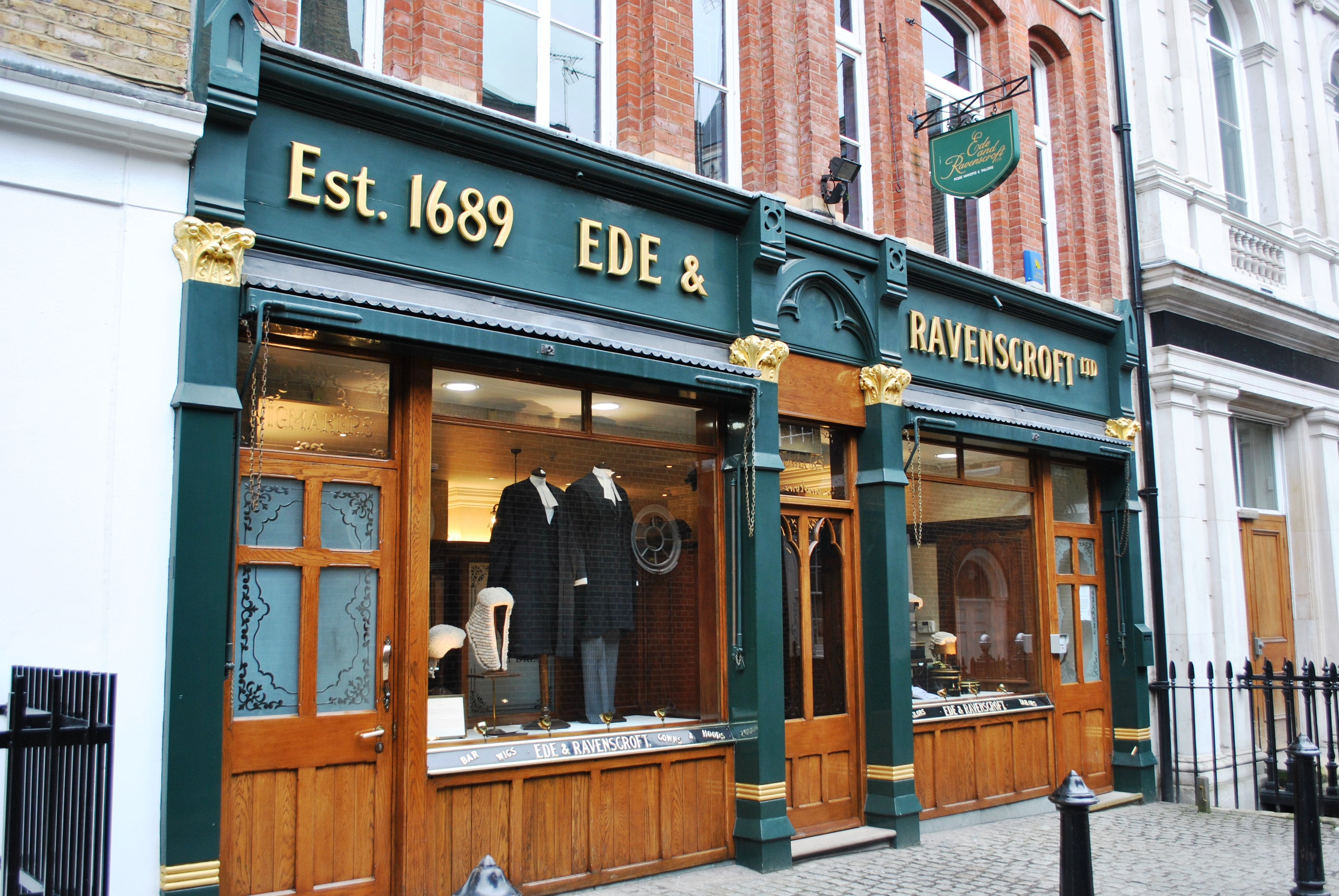 Ede & Ravenscroft